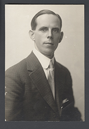 former Congressman Joseph V. Flynn.